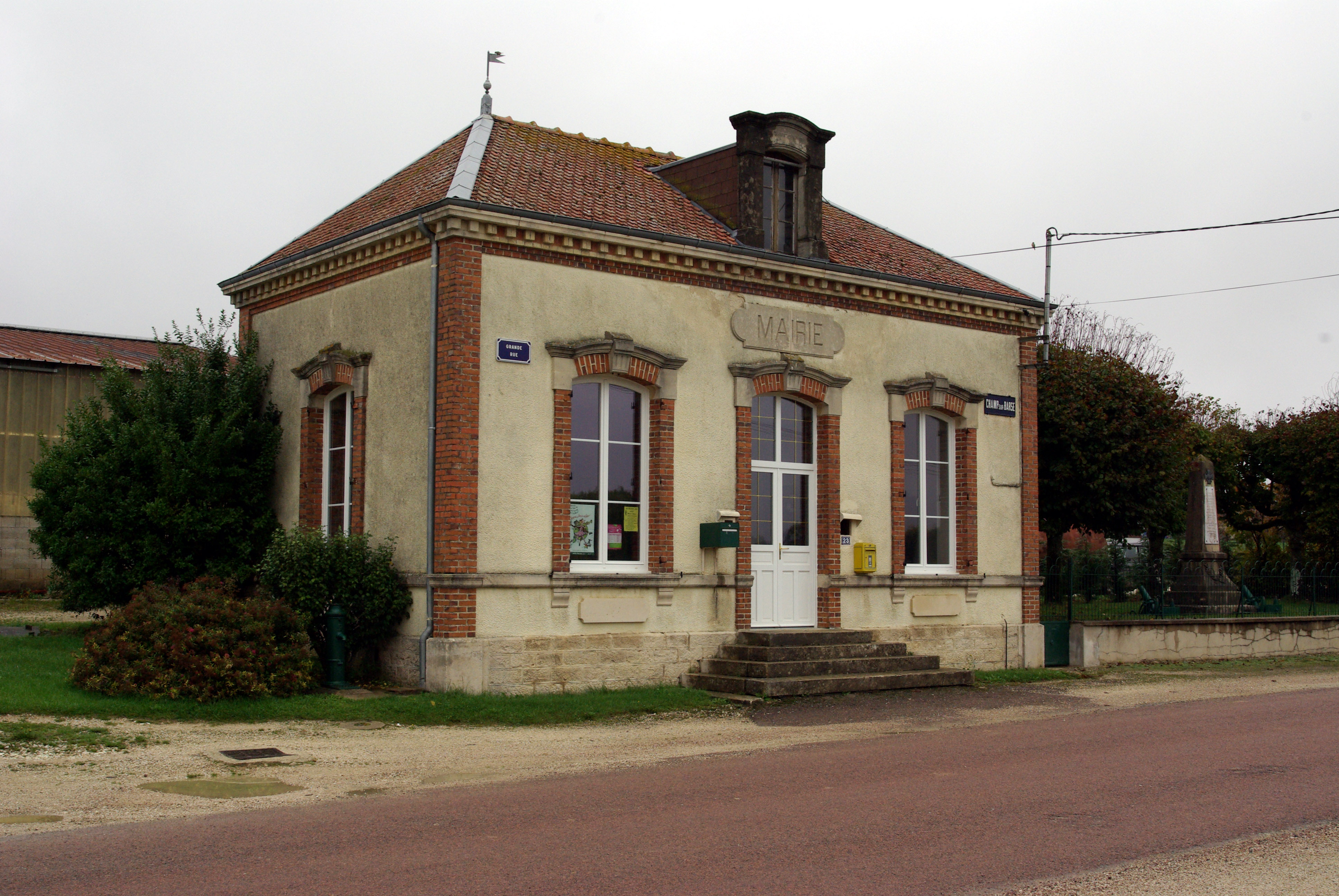 Champ-sur-Barse, the Village Hall